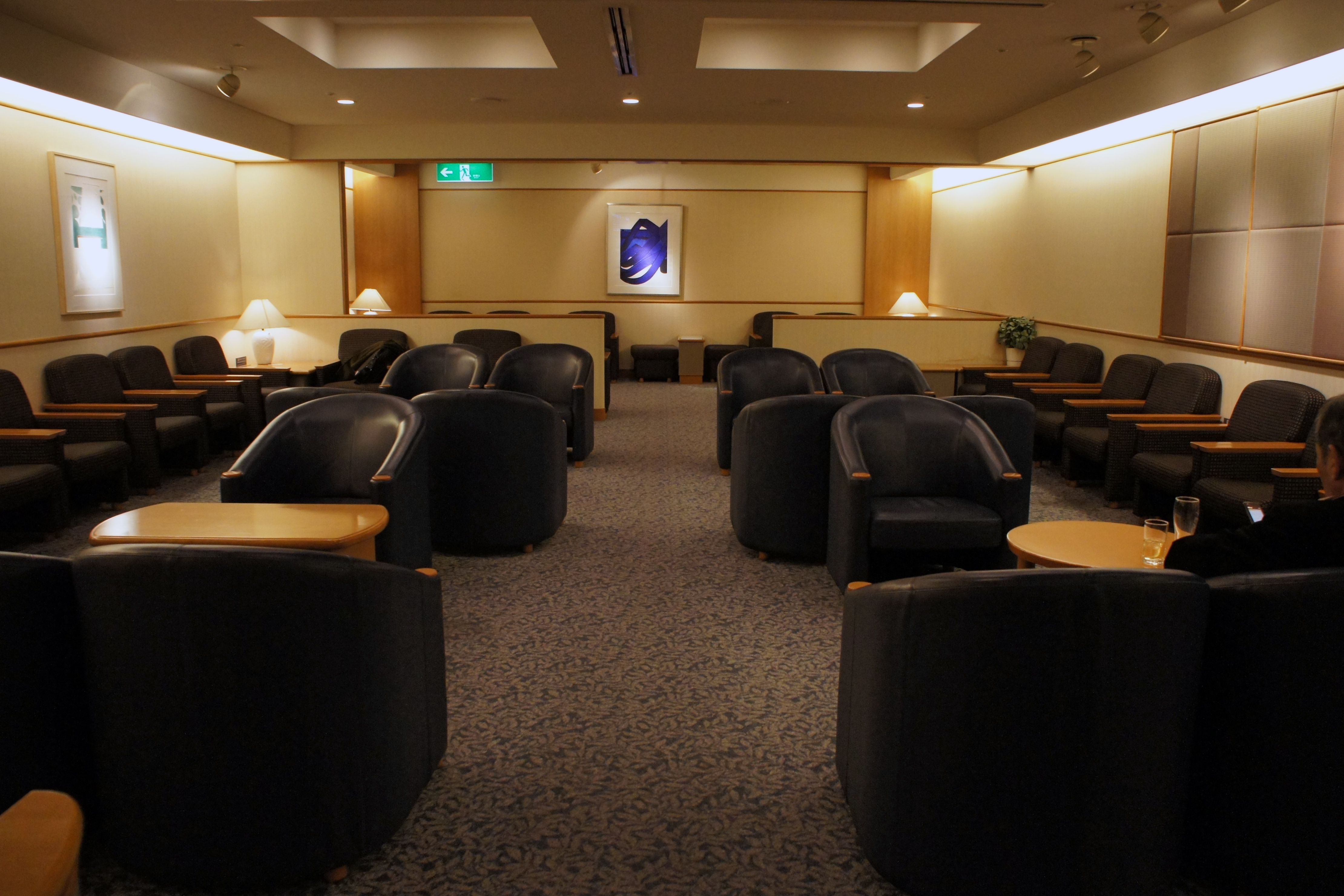 SAKURA Lounge of Kansai International Airport (Domestic) in Izumisano, Osaka prefecture, Japan